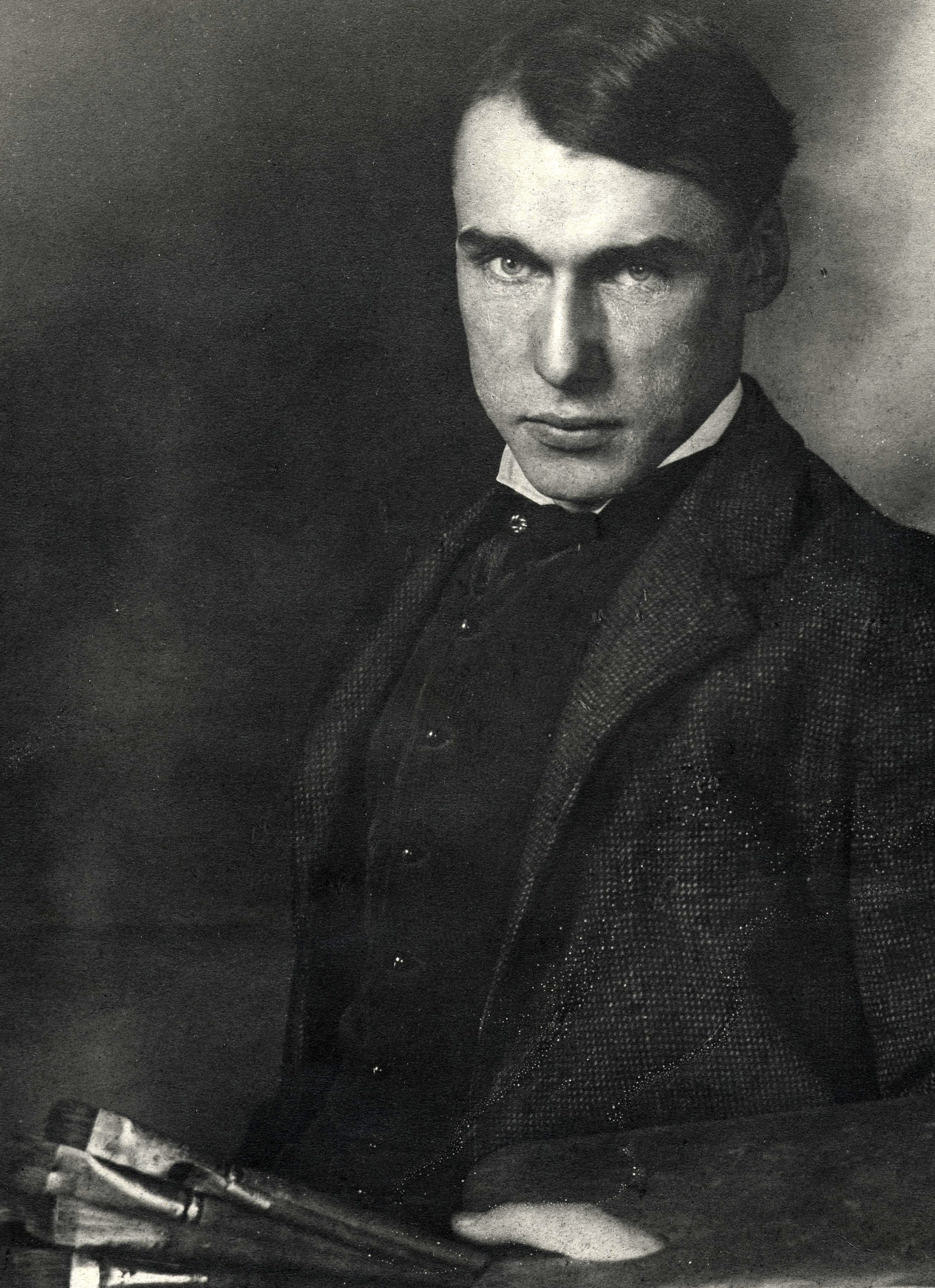 Identification on verso (handwritten): Photo by Pangborn (Profession photographer) lived and worked at 119 East 23 St. New York City same bldg. Walt Kuhn had his studio 1904-1905 when and where this photo was taken. A small print of this photo was cremated with Vera Kuhn, after her death, October 22, 1961. Wrote this information upon this photo, December 16, 1962 (signed) Brenda Kuhn. Paul Branson (well known American Animal artist who also lived 1904-1905 at 119 East 23 St N.Y. City, gave this photo with accompanying negative (now in possession of Brenda Kuhn) to the artist's widow, Vera Kuhn. Identification on accompanying note (typewritten): Walt Kuhn (1880-1949): As one of the organizers of the Armory Show (1913), Kuhn searched Europe for artists whose work had not yet been seen in the United States. He started his career as a cartoonist, but as a painter he concentrated on clowns, acrobats and the circus.